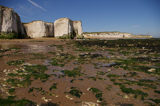 Foreness Point from Botany Bay (low tide) The water treatment plant (under construction) at Foreness Point can be seen far right. Chalk cliffs and chalk "reef" beach formation is in foreground. Low tide view.